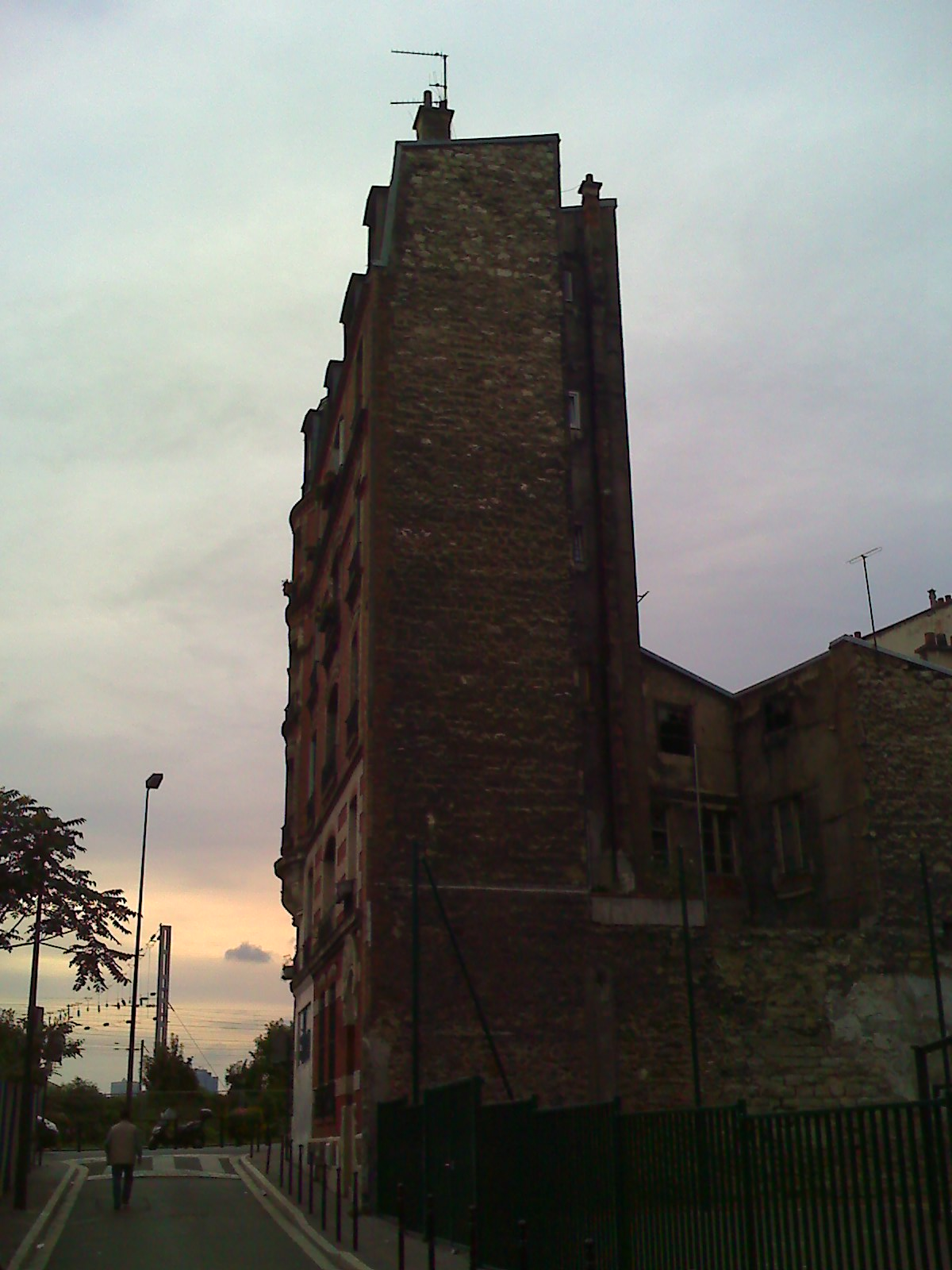 Residential building at Passage Berthier in Clichy-la-Garenne, France